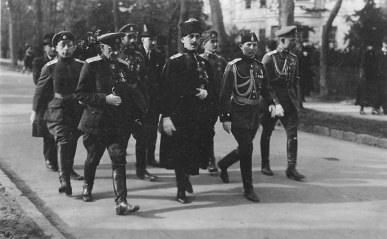 War between Latvians and White-Russians & Germans is starting. General Bermondt-Avalov came to Jelva in the middle of June, 19191 and started war against Latvians in September 1919.